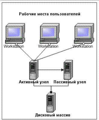 Cluster1